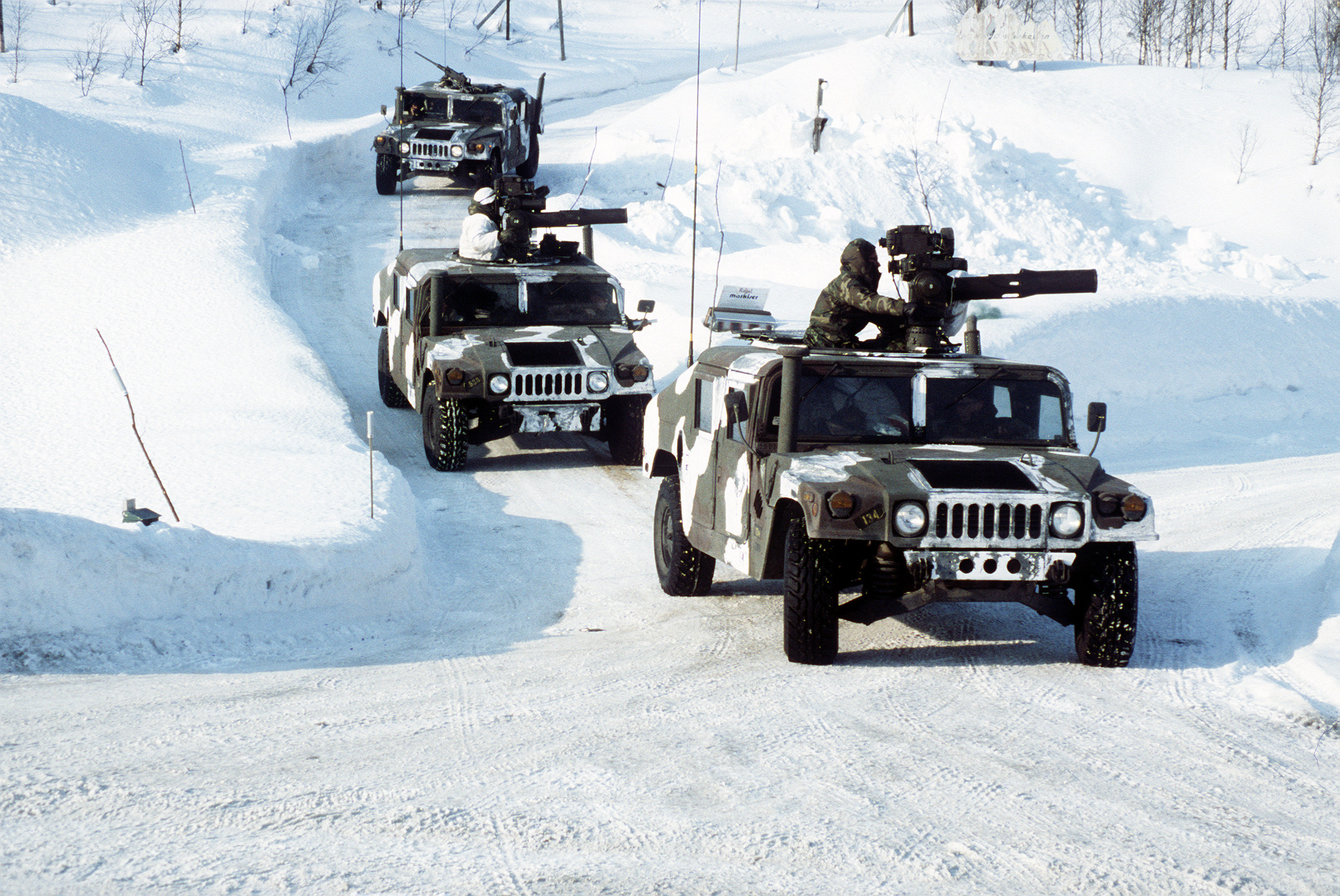 A convoy of M-998 series multipurpose-wheeled vehicles proceeds through the Norwegian countryside during Operation Cold Winter '87, a NATO-sponsored military exercise. The first two vehicles are equipped with Tube-launched, Optically tracked, Wire-guided (TOW) anti-tank weapons systems and the third has an M-2.50-caliber machine gun.